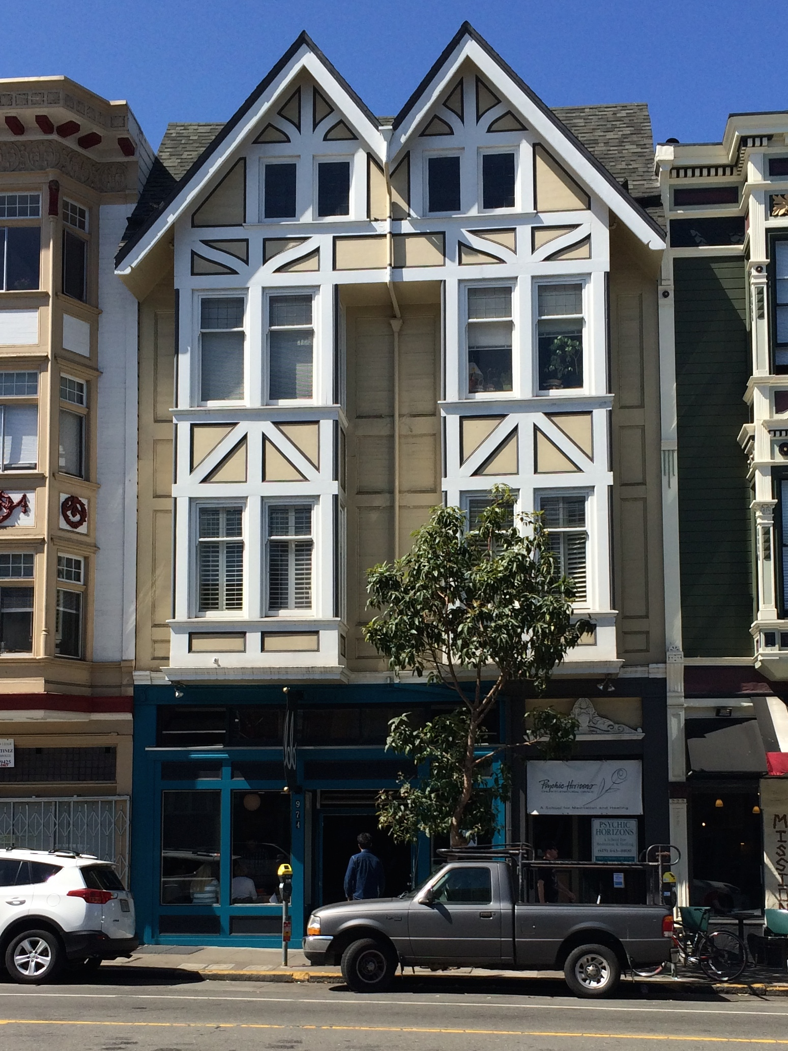 Former location of Valencia Tool & Die music venue, now a restaurant (Lolo)